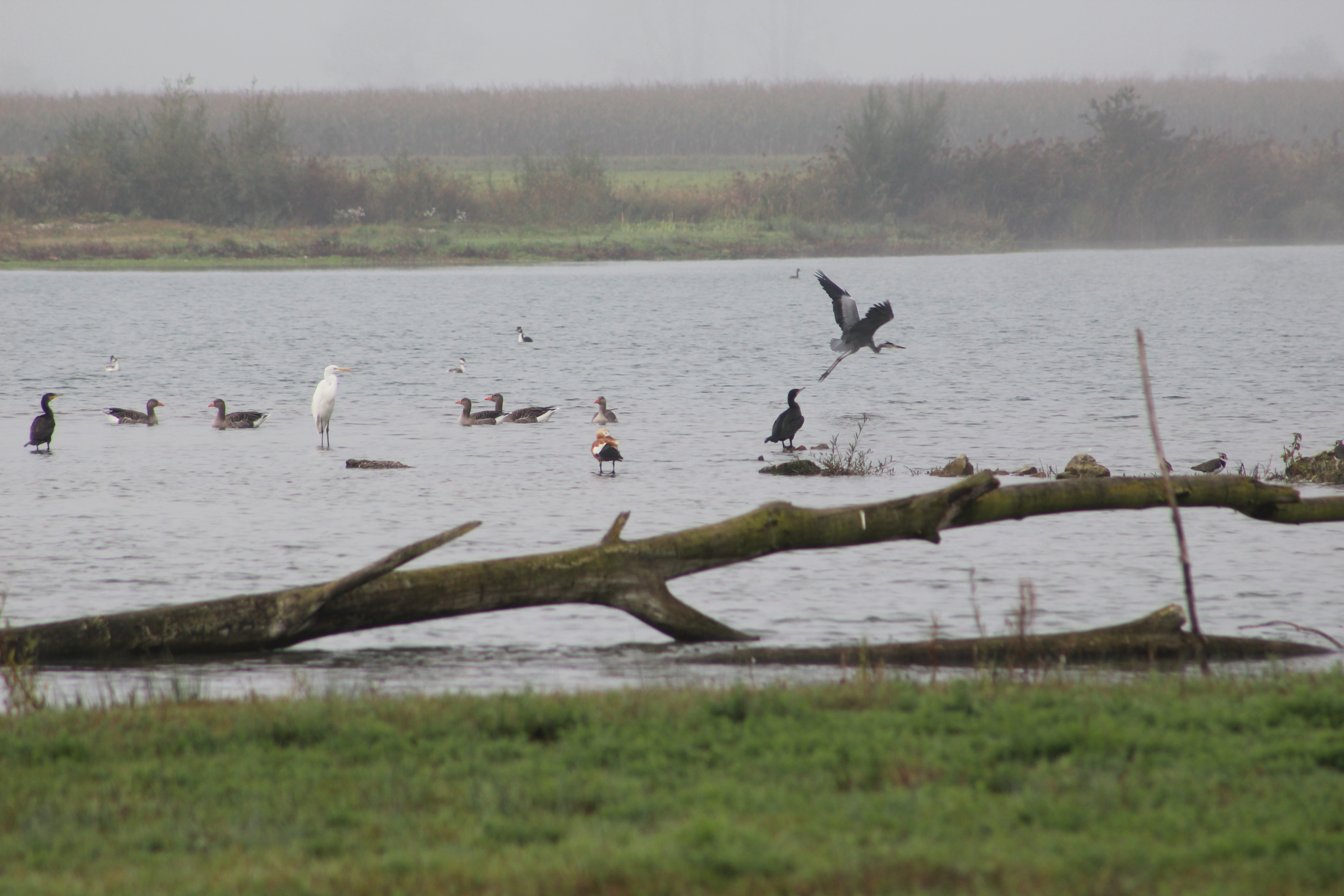 Great crested grebes, greylag geese, a grey heron, a great egret, a ruddy shelduck, and a northern lapwing at the Plessenteich (Neu-Ulm)